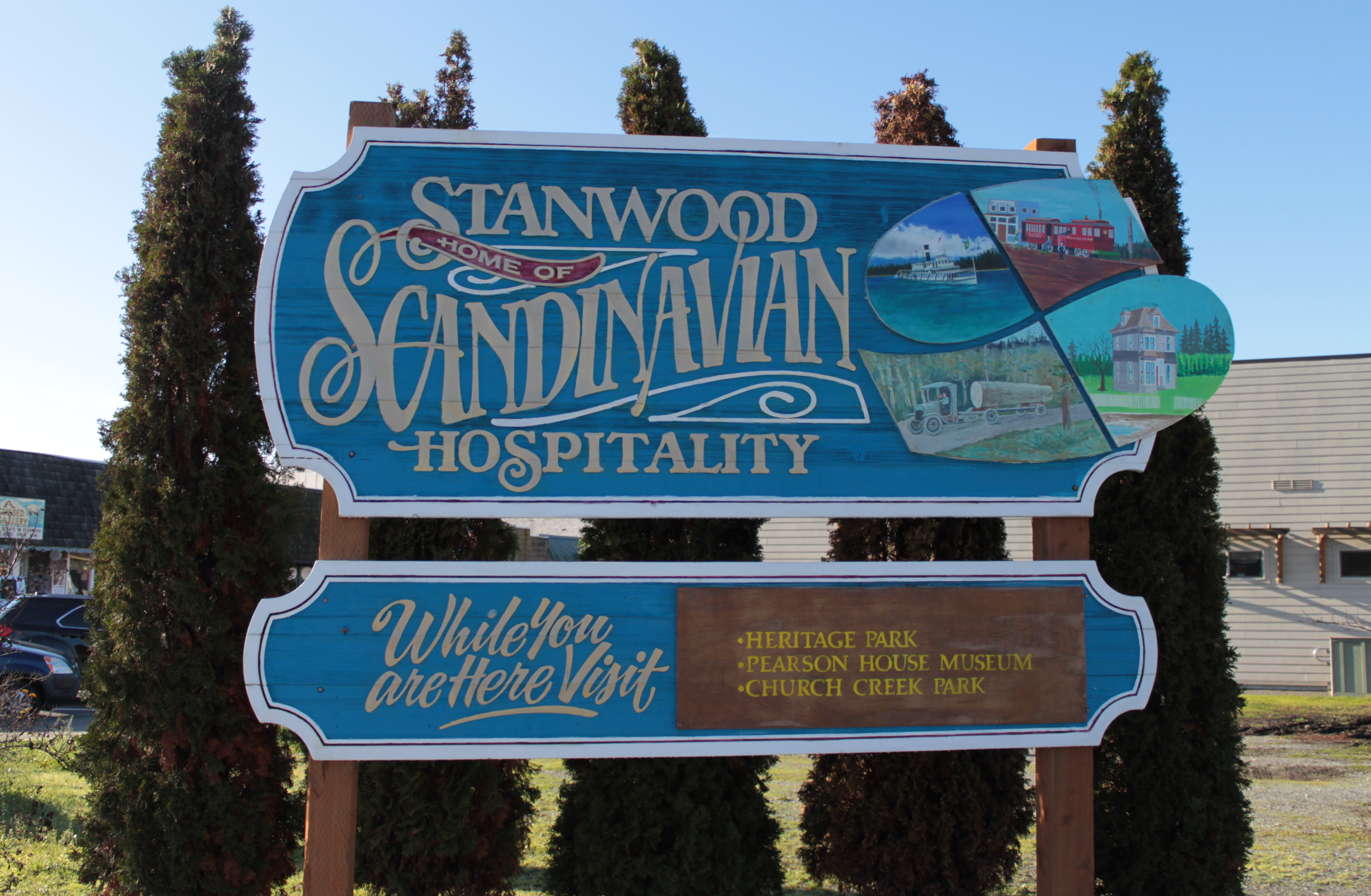 A welcome sign in Stanwood, proclaiming it as the home of "Scandinavian Hospitality"